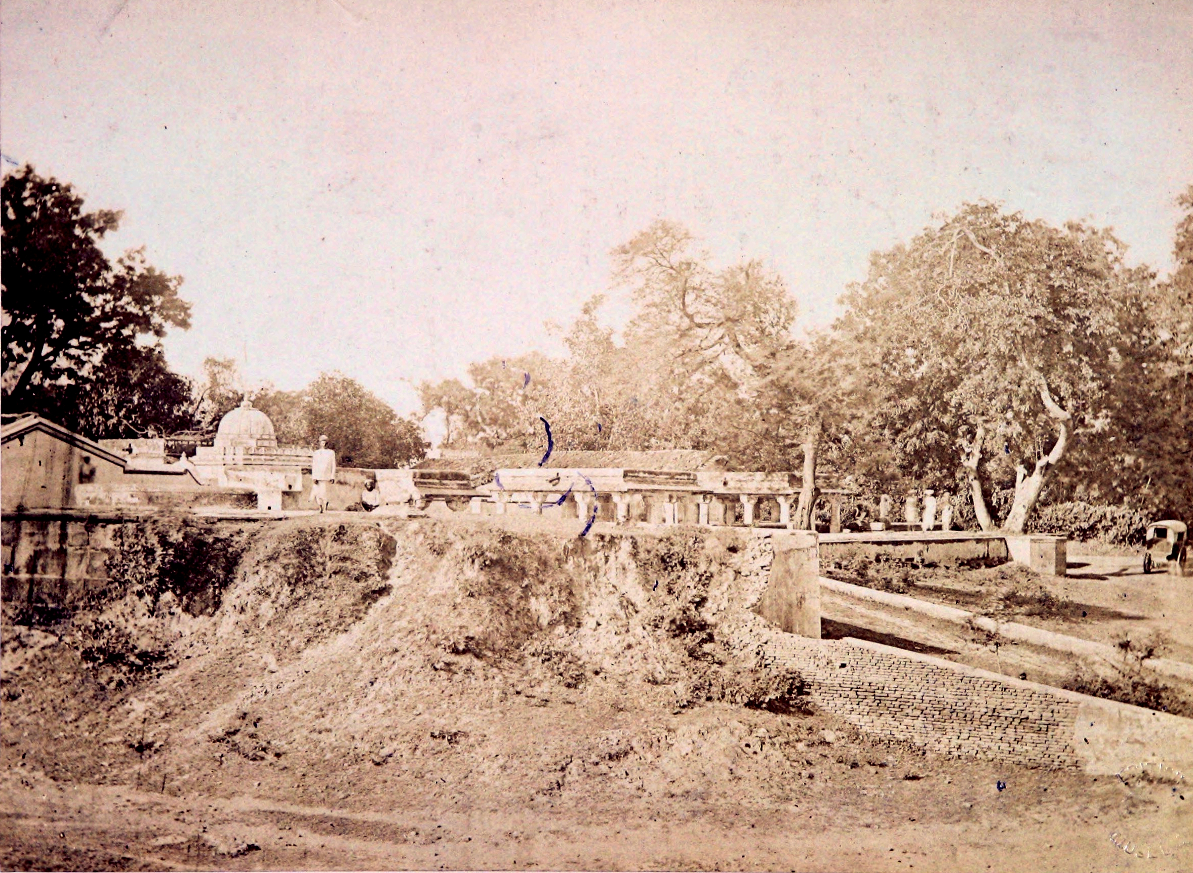 Image taken from: Title: "Architecture at Ahmedabad, the Capital of Goozerat, photographed by Colonel Biggs, ... With an historical and descriptive sketch, by T. C. H., ... and architectural notes by J. Fergusson, etc" Author: HOPE, Theodore Cracraft - Sir, K.C.S.I Contributor: BIGGS, Thomas. Contributor: FERGUSSON, James - Architect Shelfmark: "British Library HMNTS 10057.f.17.", "British Library OC V 6665" Page: 127 Place of Publishing: London Date of Publishing: 1866 Issuance: monographic Identifier: 001730119 Note: The colours, contrast and appearance of these illustrations are unlikely to be true to life. They are derived from scanned images that have been enhanced for machine interpretation and have been altered from their originals. If you wish to purchase a high quality copy of the page that this image is drawn from, please order it here. Please note that you will need to enter details from the above list - such as the shelfmark, the page, the book's volume and so on - when filling out your order. Following this or the link above will take you to the British Library's integrated catalogue. You will be able to download a PDF of the book this image is taken from, as well as view the pages up close with the 'itemViewer'. Click on the 'related items' to search for the electronic version of this work. Click here to see all the illustrations in this book and click here to browse other illustrations published in books in the same year. Please click on the tags shown on the right-hand side for other ways to browse the illustrations.